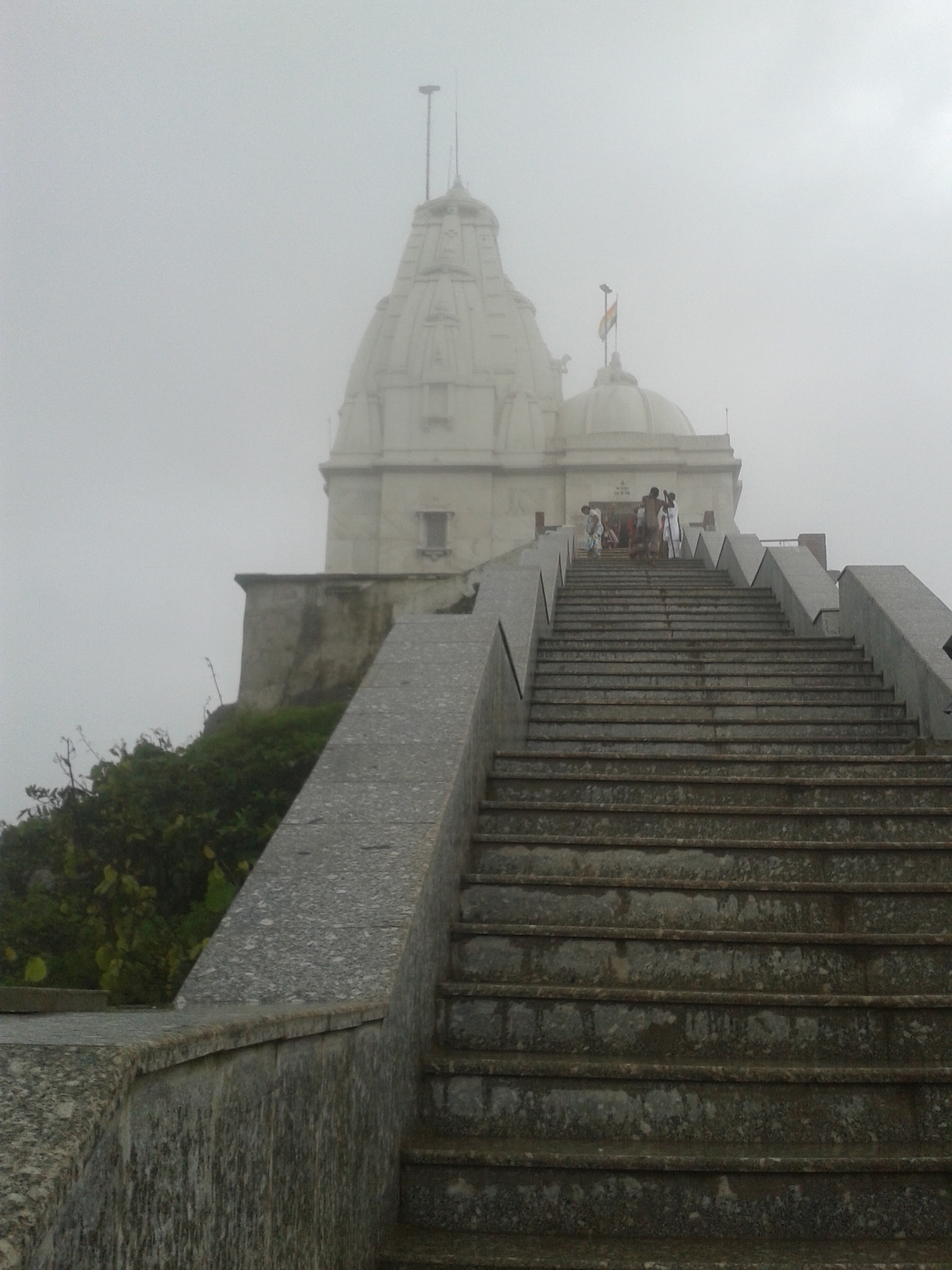 Tonk of 23th Teerthankar Parasnath at Shikharji.